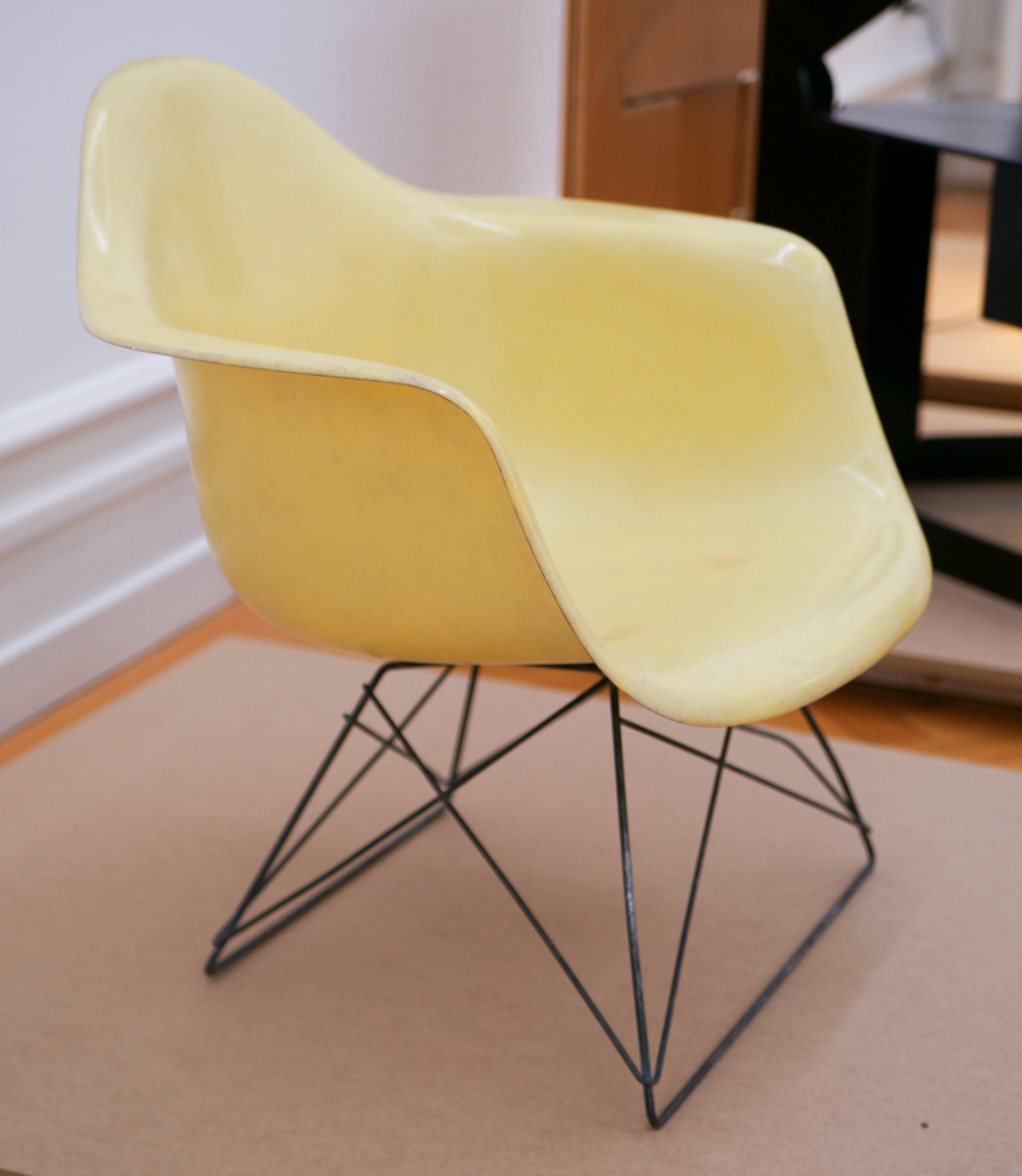 Plastic Armchair 1950/53 by Vitra